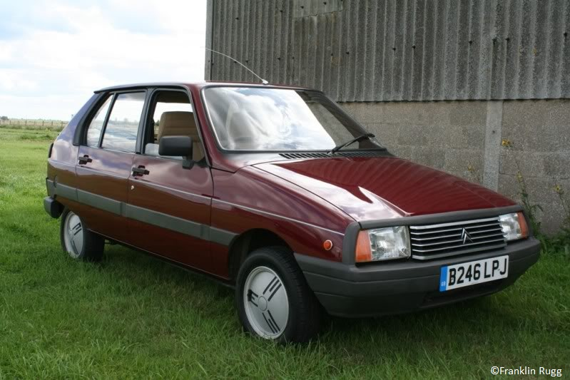 Citroen Visa 14TRS